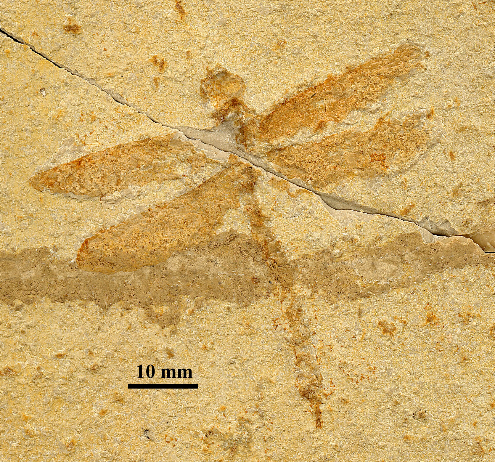 Tarsophlebia minor (Odonata: Tarsophlebioptera: Tarsophlebiidae), Upper Jurassic, Solnhofen Plattenkalk, female specimen at Bürgermeister Müller Museum in Solnhofen (Germany) (ex coll. Wittmann), badly preserved venation, but visible hypertrophied ovipositor